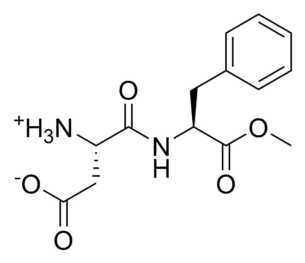 Chemical structure of aspartame